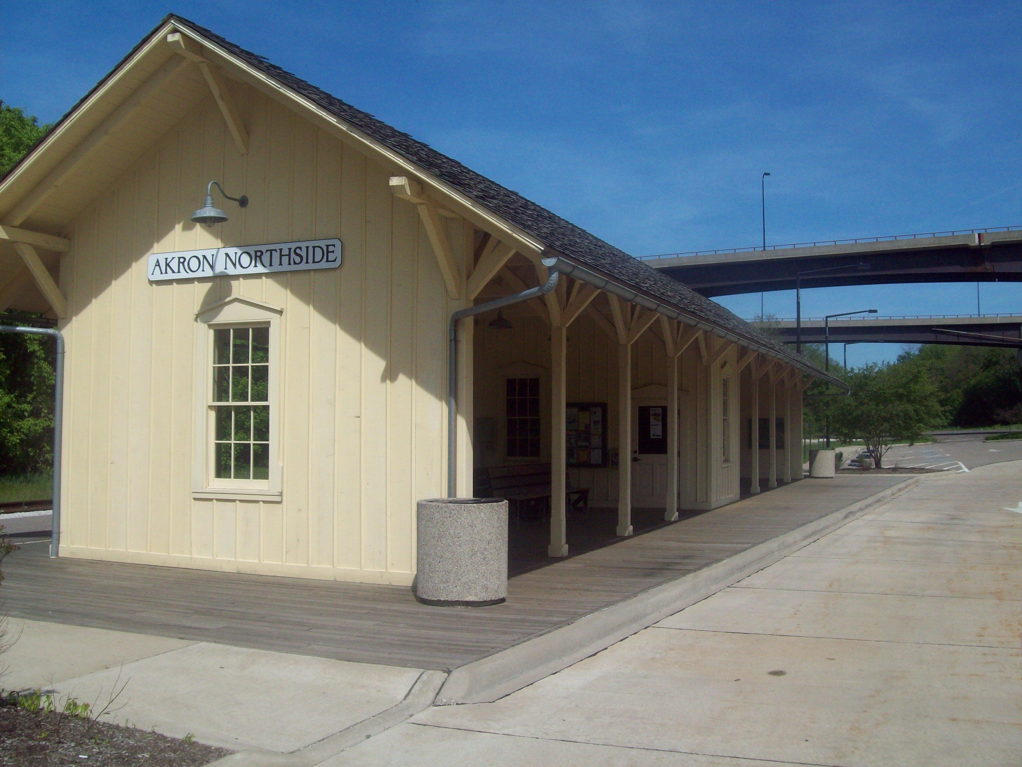 Akron NorthSide Station, located in Akron, Ohio, United States.